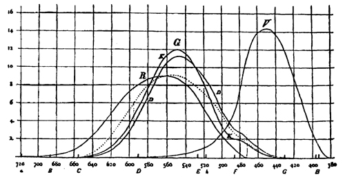 Graph of fundamental color sensations